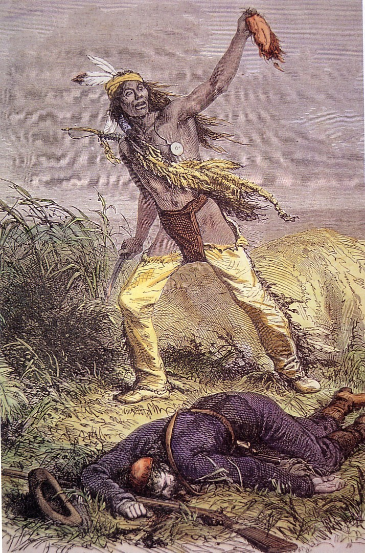 An Apache warrior scalping a U.S. soldier.